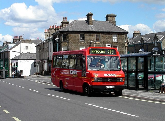 Bus stop